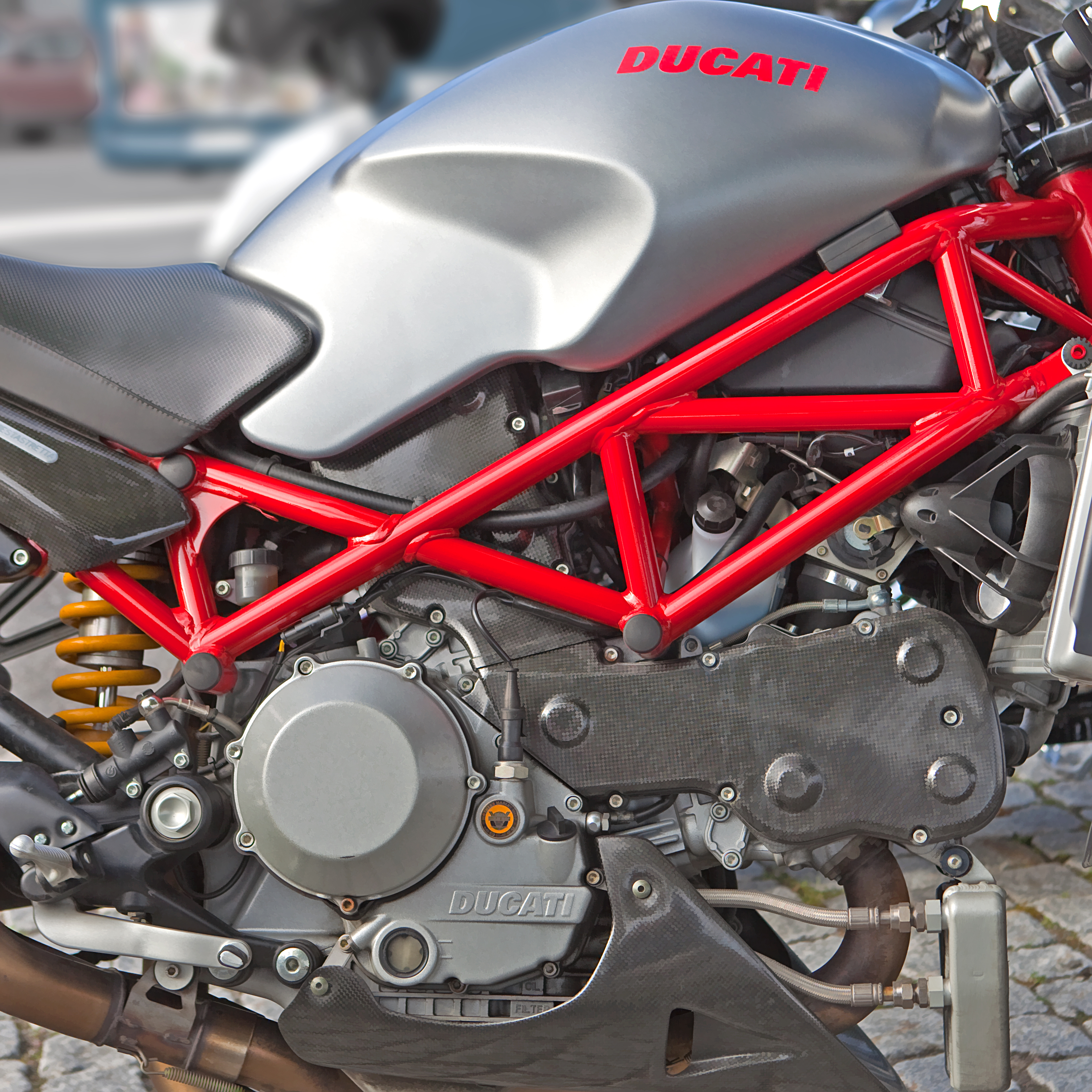 Motorcycle engine Vaxholm August 2012